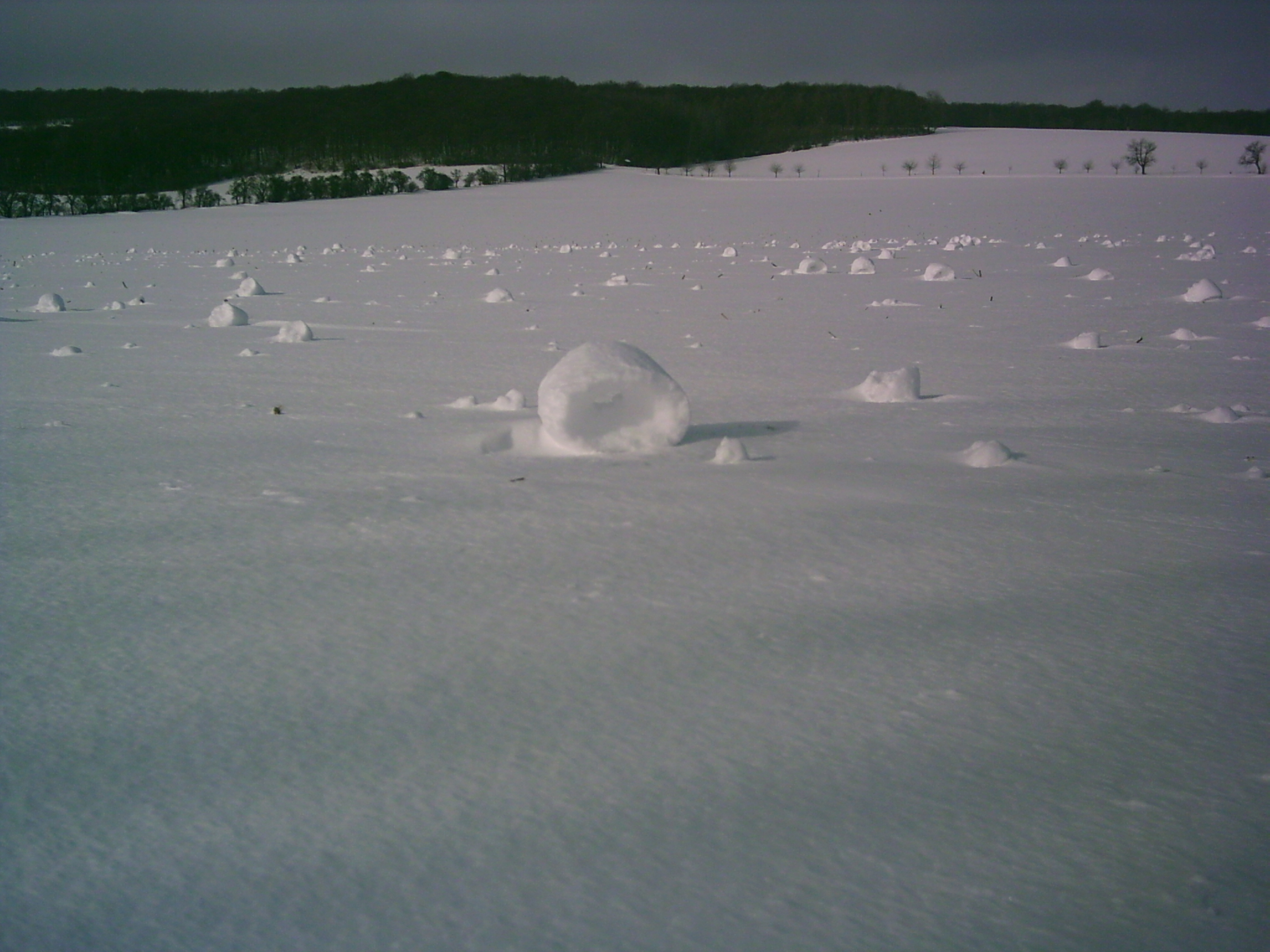 Schneeringe in Zäckwar